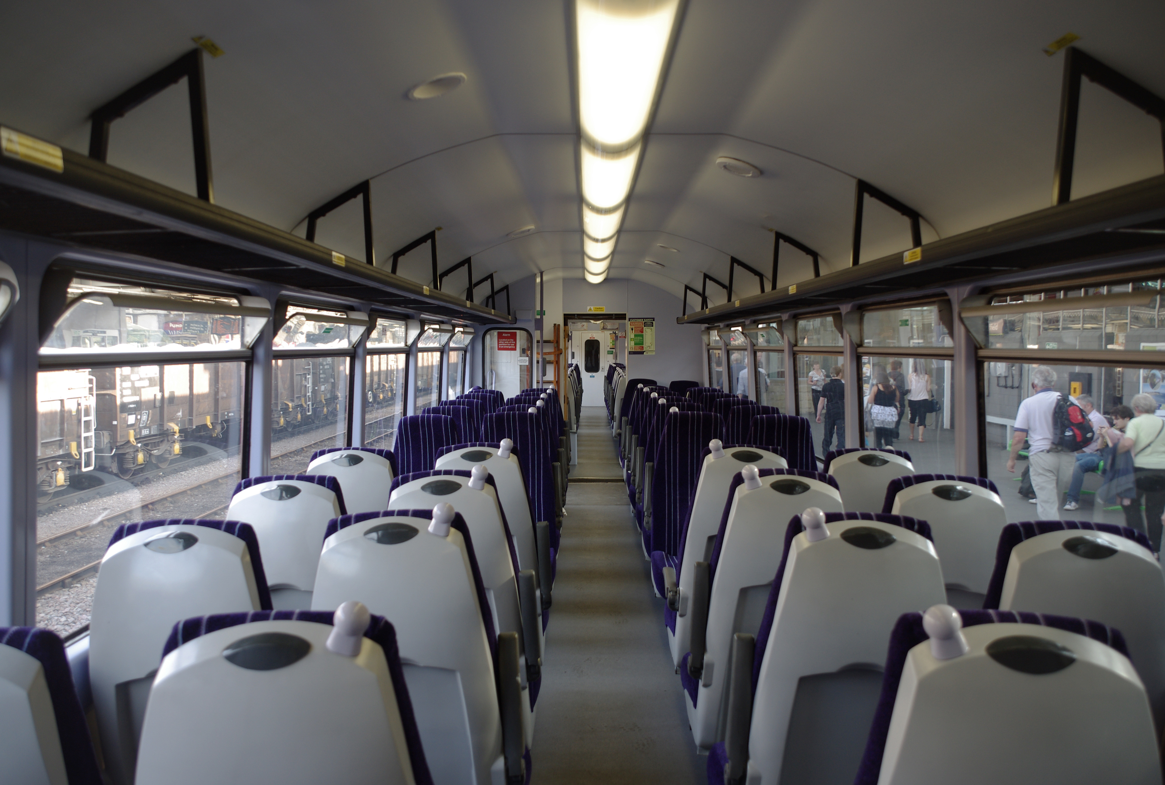 Interior of Northern Rail unit 144013 at Sheffield railway station.